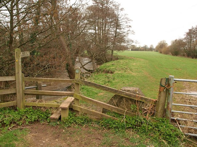 West Deane Way at Hele Bridge The trail heads down the right bank of the River Tone.